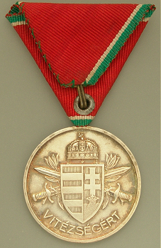 Hungarian Medal from World War II.